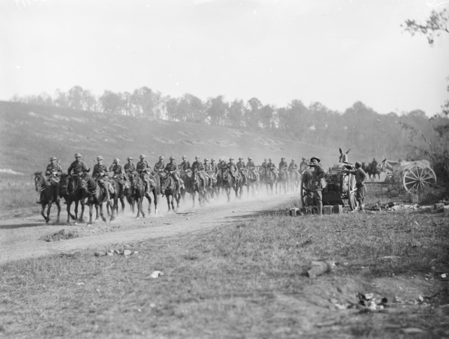 The 13th Australian Light Horse moving up past Gressaire Wood to participate in the attack that morning near Bray by the 9th Infantry Brigade. Left to right: 308 Sergeant (Sgt) Leslie Rae Lucke; 178 Sgt Gordon Drane; Corporal A. Mason; 63 Trooper (Tpr) Leonard Horwood; Tpr L. Tschampion; 474 Tpr Albert Tipper; unidentified; Tpr A. Burns; Tpr E. Waters; Tpr W. R. Rathman; Tpr W. Barrett; 1437 Tpr Francis Norman Young; unidentified; Tpr R. J. Jenkins; Tpr C. P. Robinson; unidentified; unidentified; Lance Corporal J. B. Abbotts; five unidentified. See E02979K for position of those named in this caption.